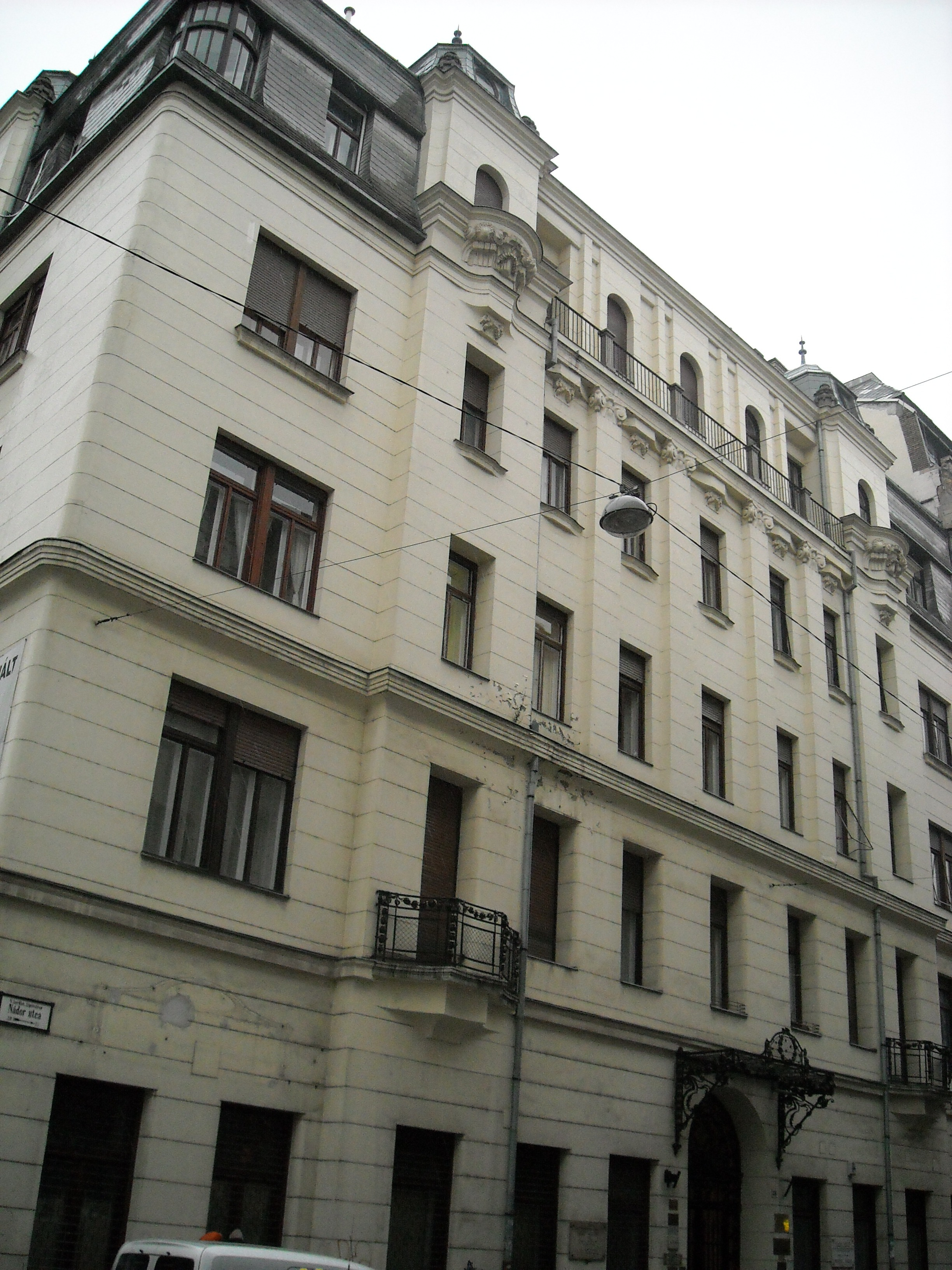 Nádor utca 23, Budapest